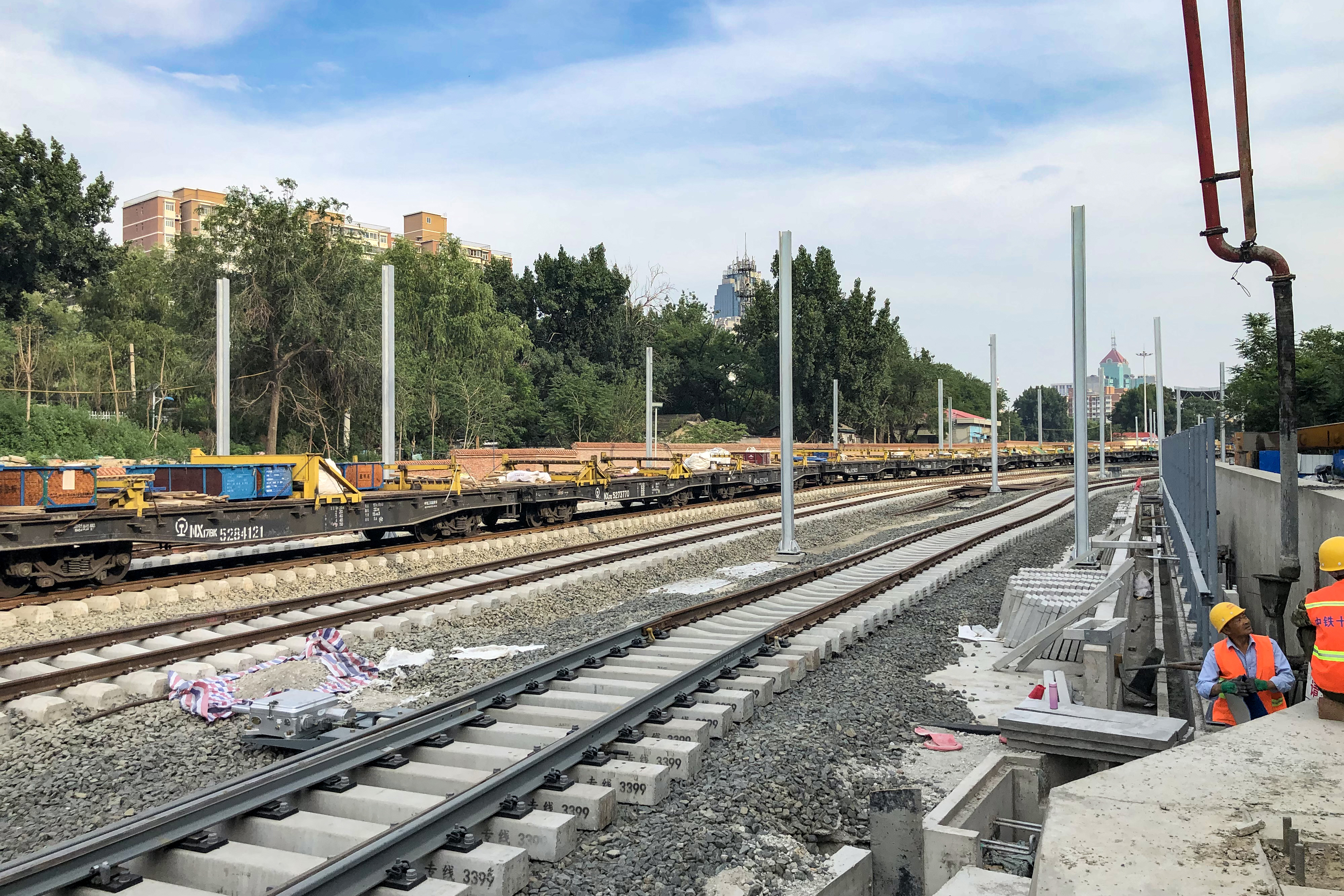 Seems that track welding is still necessary... Jingtusi was a temple here, but the temple was demolished in 1982.